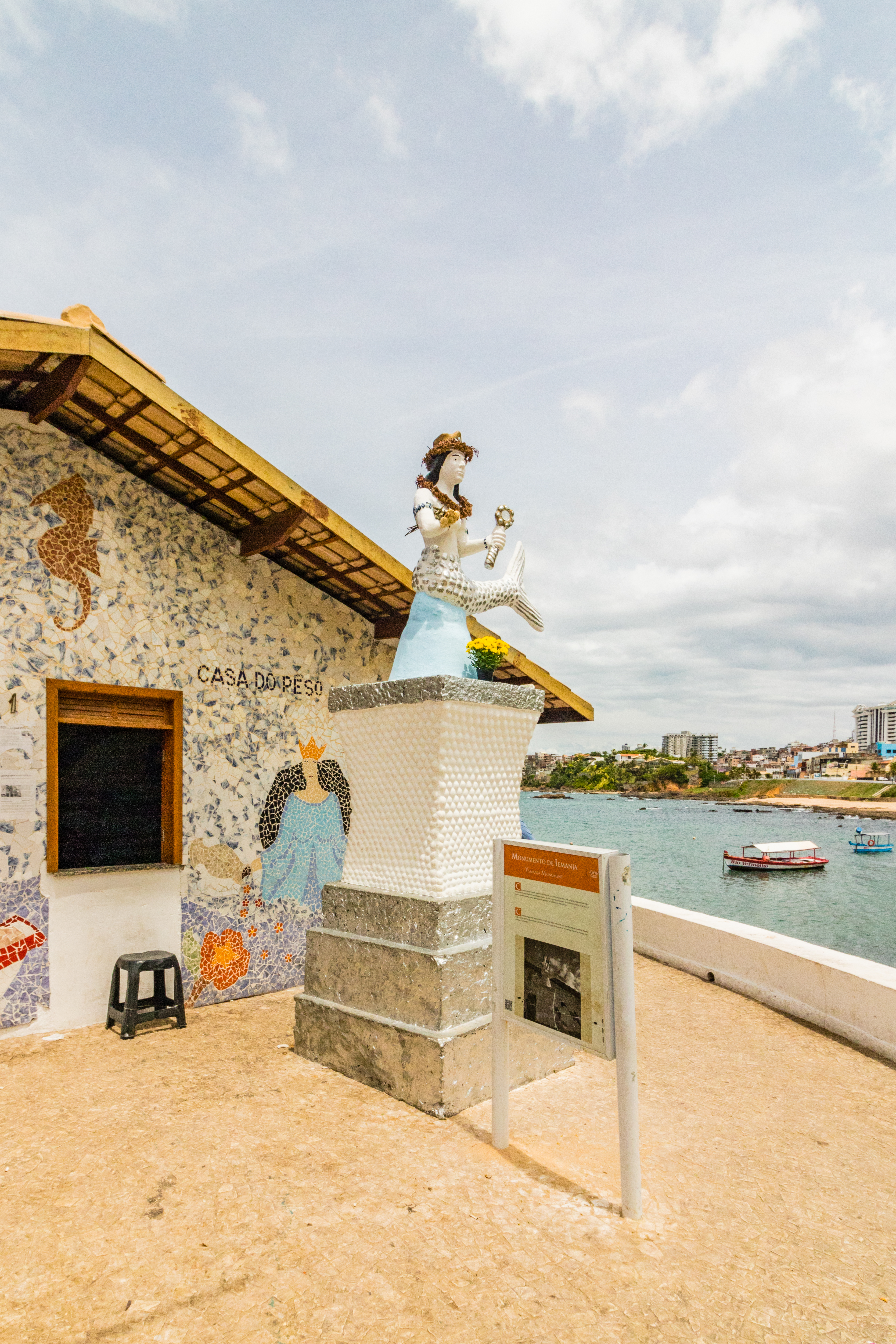 Casa de Yemanjá, Rio Vermelho, Salvador, Bahia, Brazil.